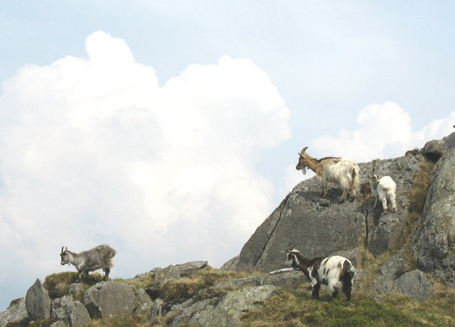 Feral Goats on Tryfan.